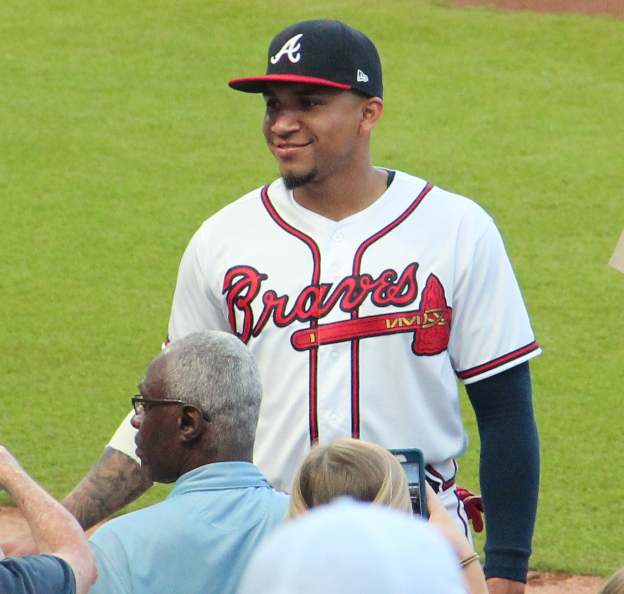 Johan Camargo